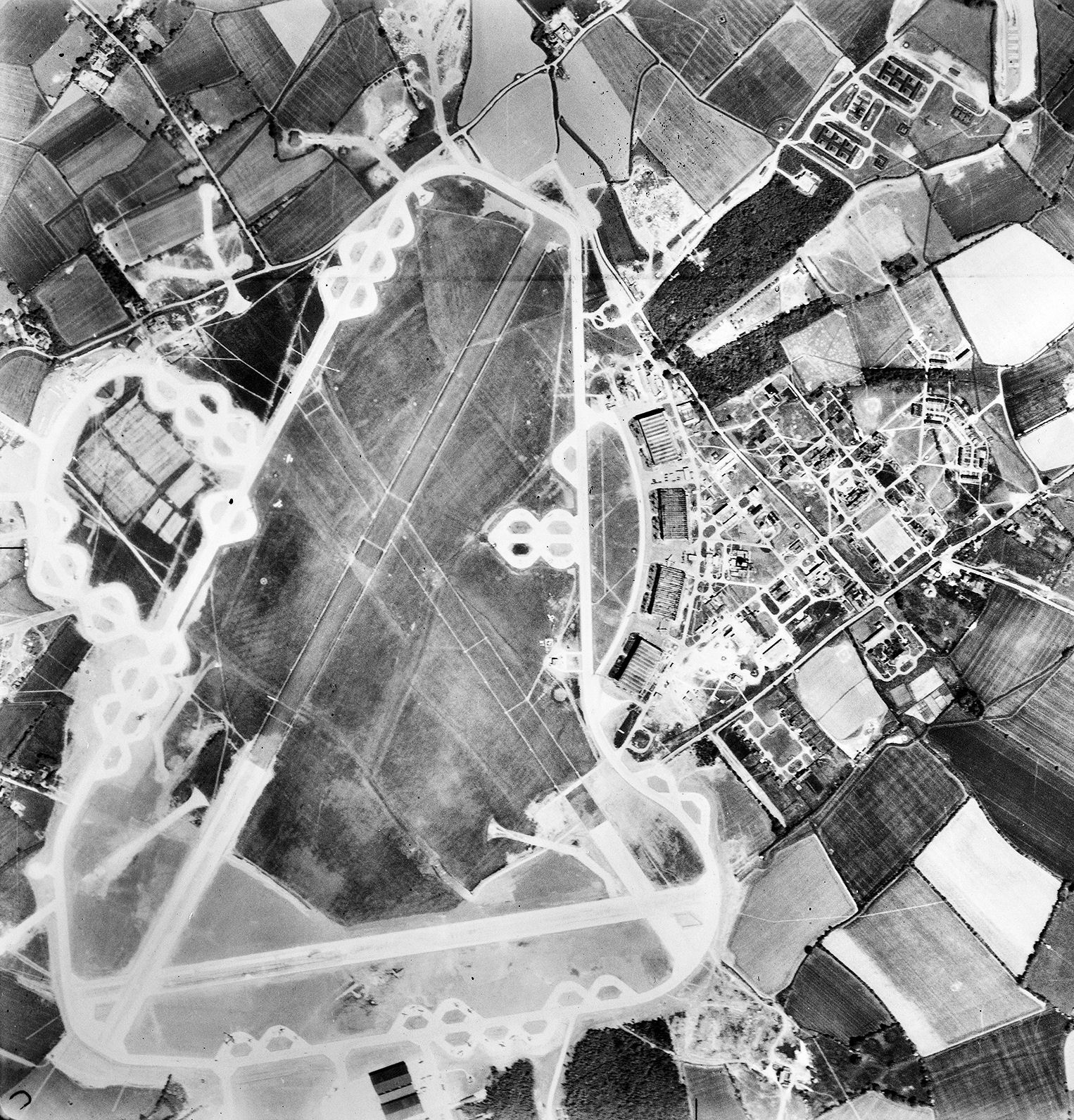 Aerial photograph of RAF Wattisham the control tower and airfield code are in front of the four C-Type hangars on the right, 27 May 1944, . Photograph taken by 14th Photographic Squadron, 7th Photographic Reconnaissance Group, sortie number US/7GR/LOC348. English Heritage (USAAF Photography).